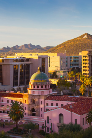 A picture of the old Pima County Courthouse. Now a historic site.